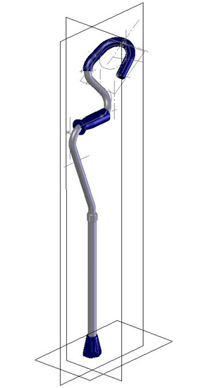 Engineering drawing of the Strongarm Forearm Crutch